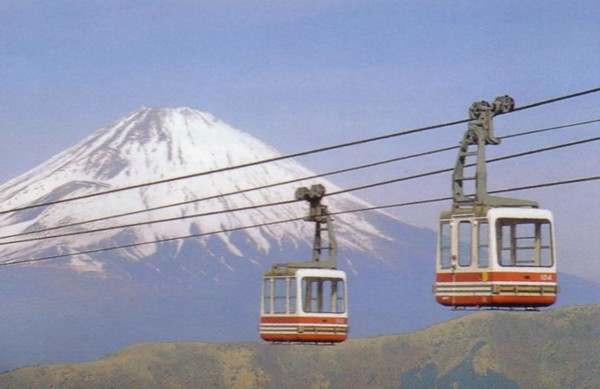 This is a picture of the aerial tram that runs over the Owakudani Valley or Great Boiling Valley in Hakone Japan. Mt. Fuji can be seen in the background.